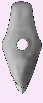 A Finnish type of boat-shaped battle-axe of corded ware culture.